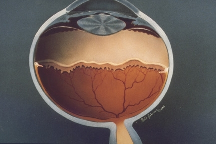 An artist's conception of the interior of an infant's eye shows the formation of an ROP ridge. Credit: Oregon Health Sciences University Ref#: EDA05